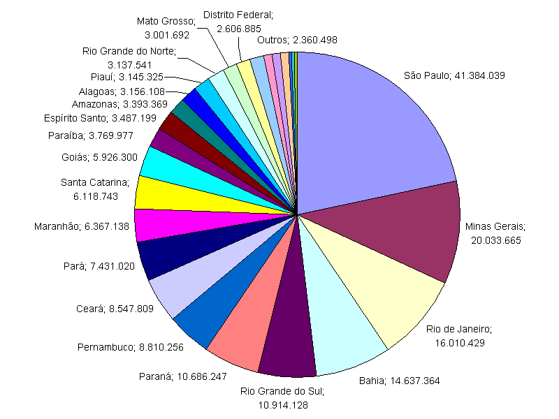 Pie chart of the population of Brasil